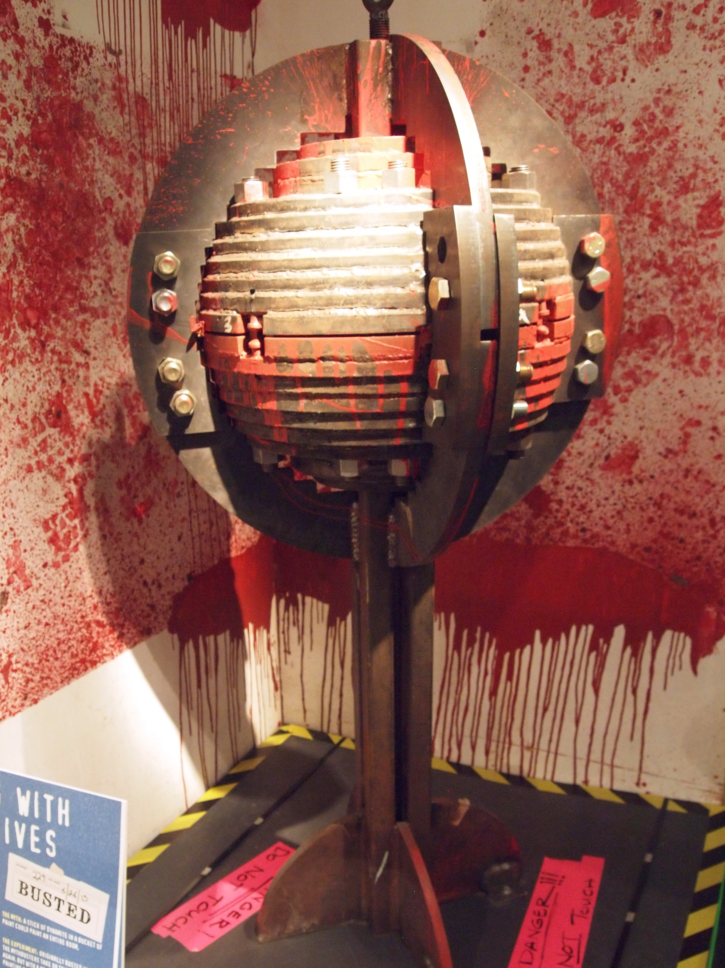 MythBusters Painting With Explosives